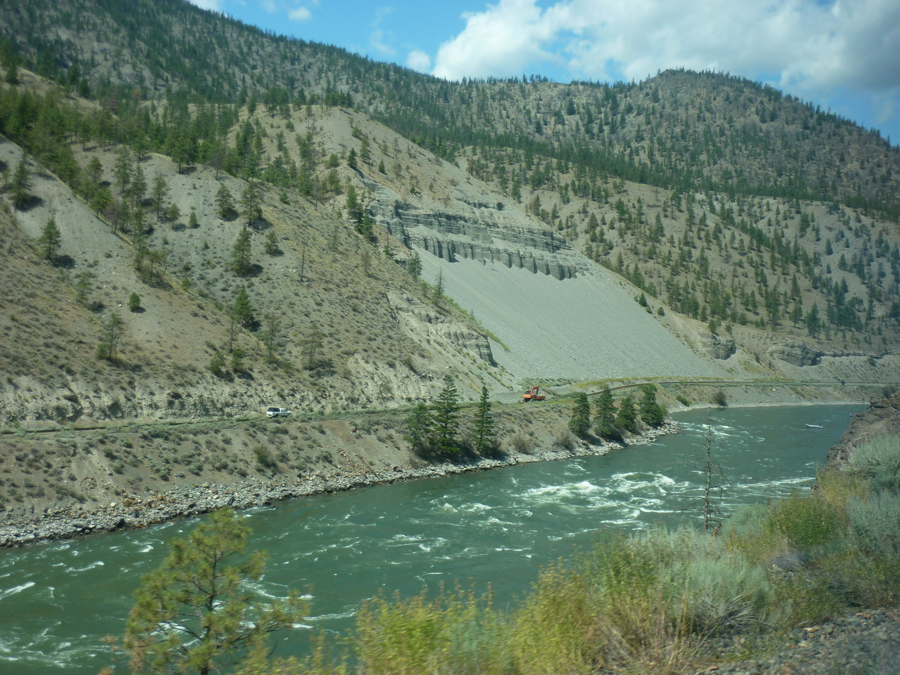 Further up the track we'd see a lot of stationary westbound trains, presumably waiting for the work to finish. There were a lot of diggers zooming up the line.